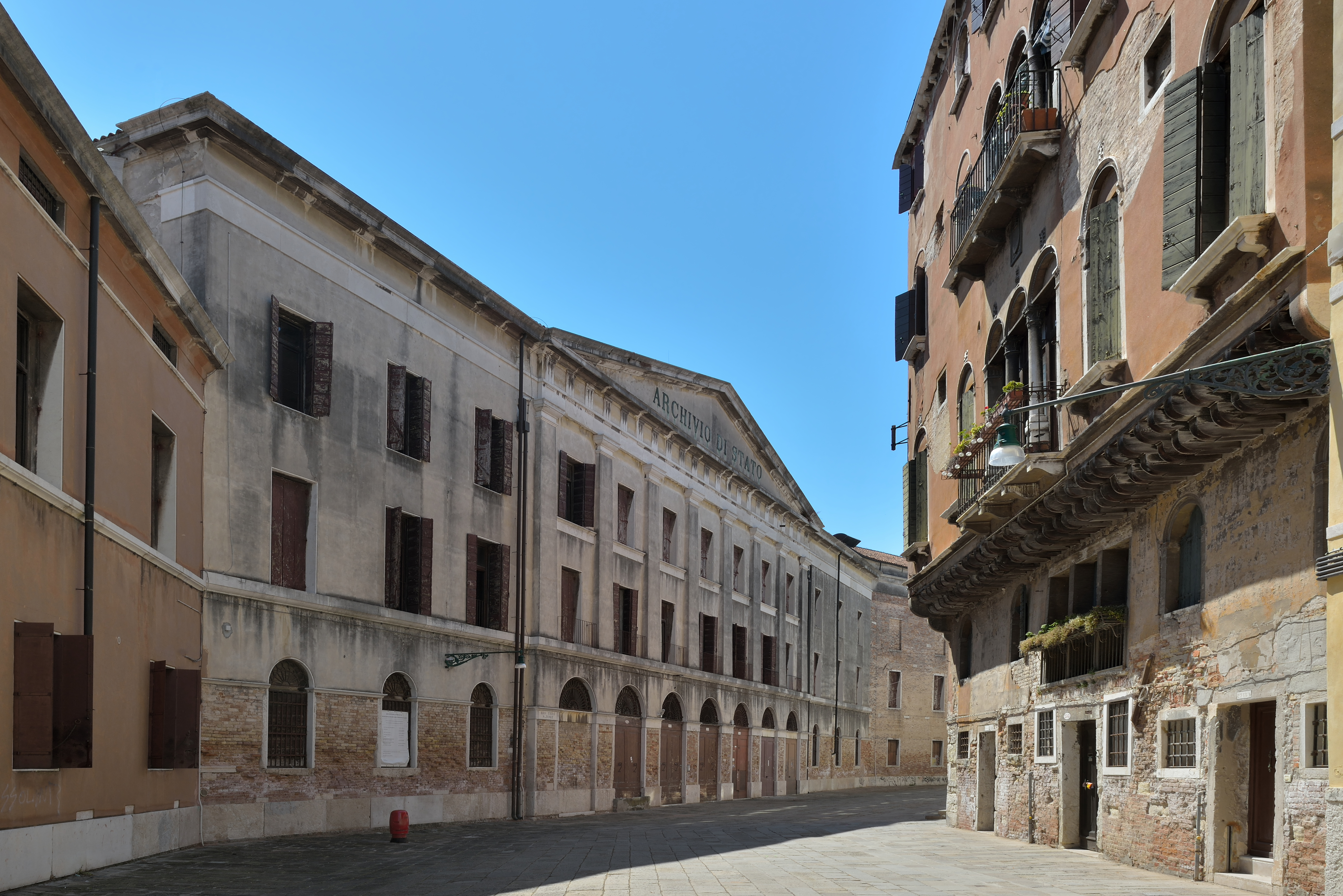 The San Stin bridge on the San Stin canal in Venice.